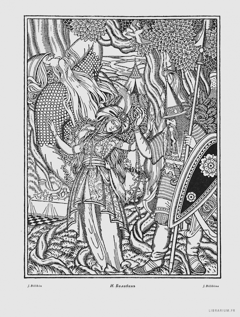 Illustration for the epic ilya muromets and svyatogor's wife - 1912 Стр. 35 Жаръ-Птица № 2 от 1 сентября 1921